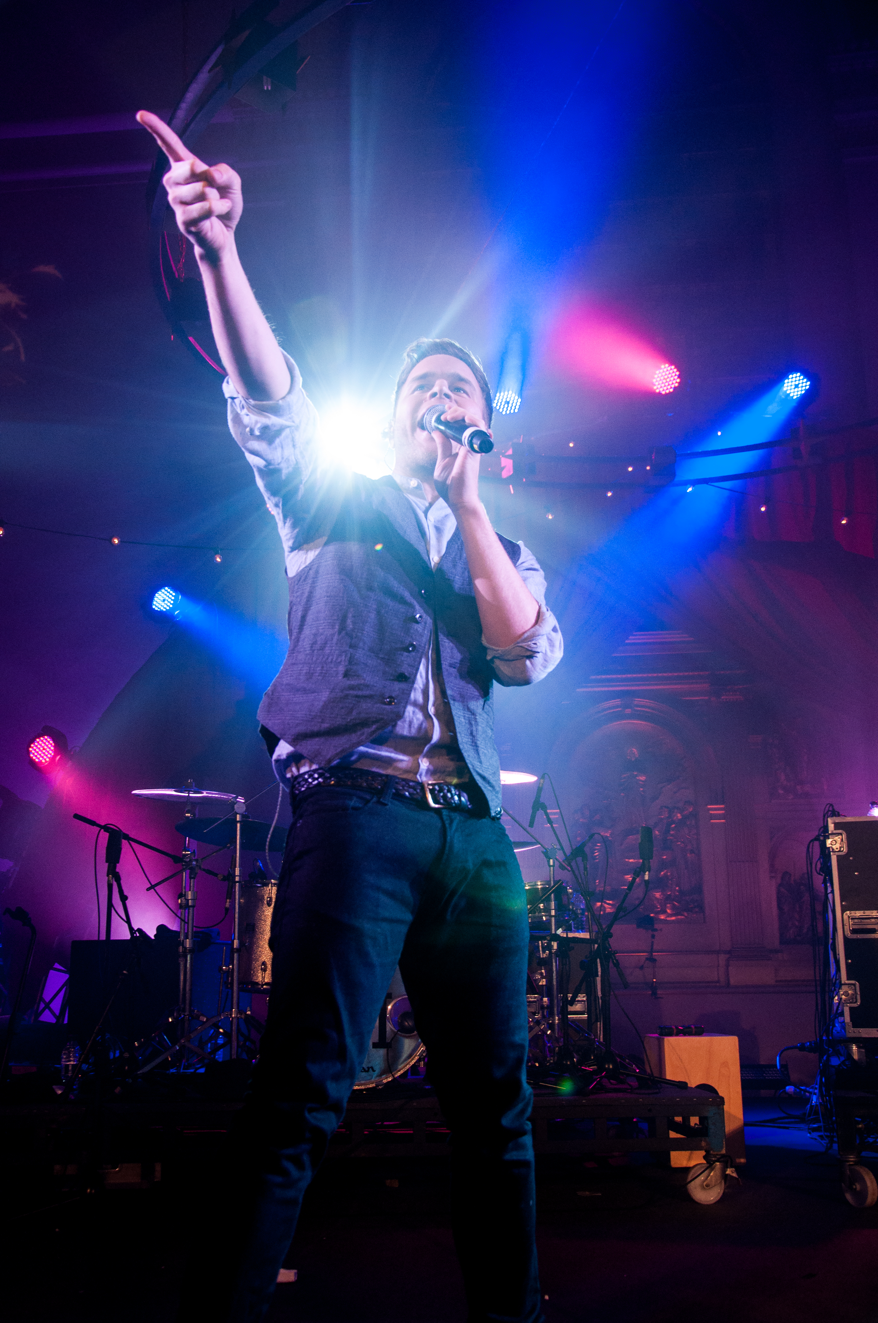 Olly Murs singing on Little Noise Session the 20 of november of 2012